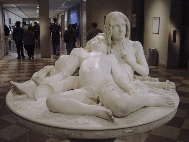 La Table aux Amours (The Demidoff Table), Lorenzo Bartolini, (Italian, 1777–1850) Metropolitan Museum of Art, NYC. Diam. 54 in. (137.2 cm), H. 64 in. (162.6 cm). Picture taken in April 2004.